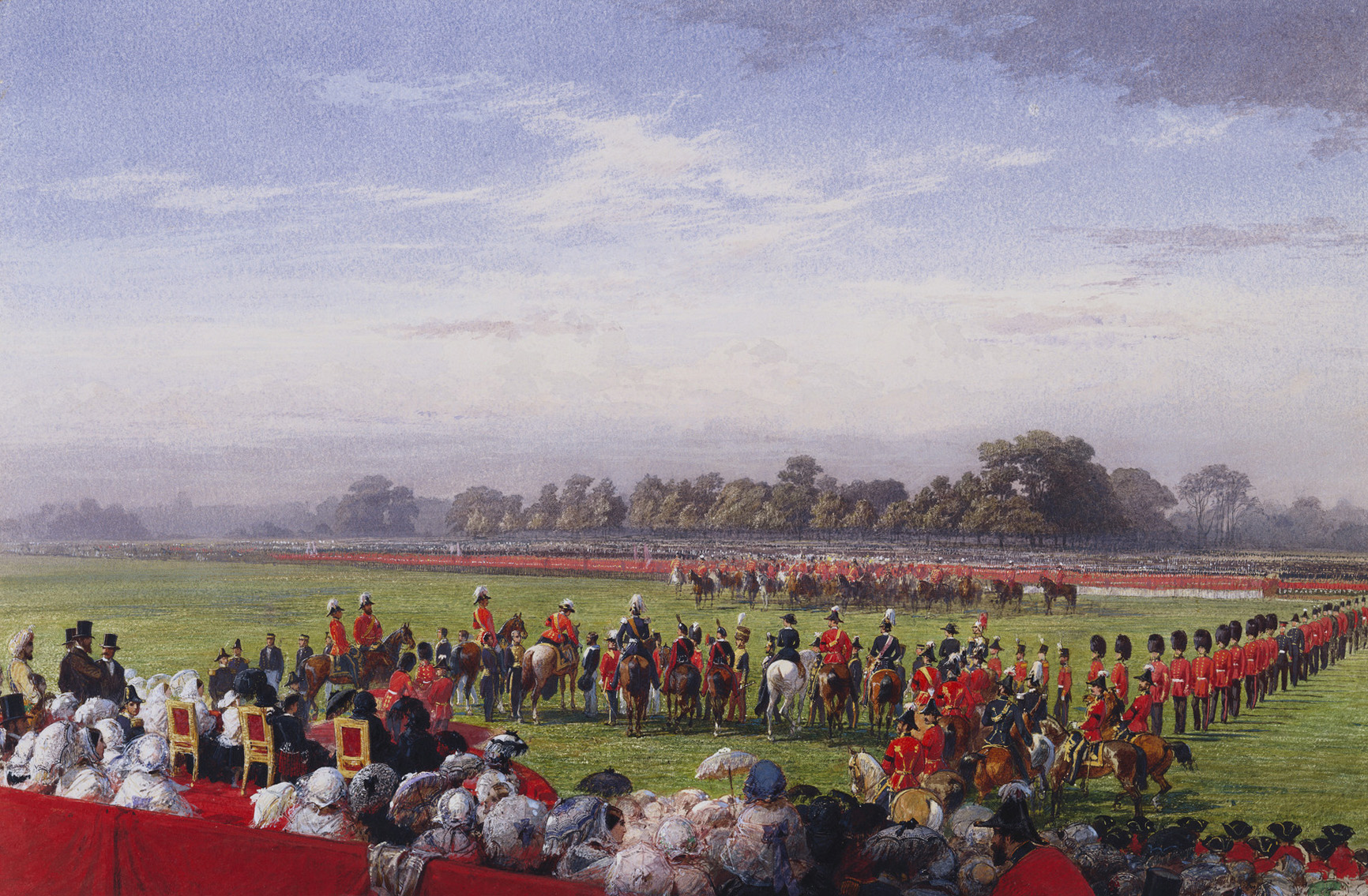 Queen Victoria distributing the first Victoria Crosses in Hyde Park, 26 June 1857.